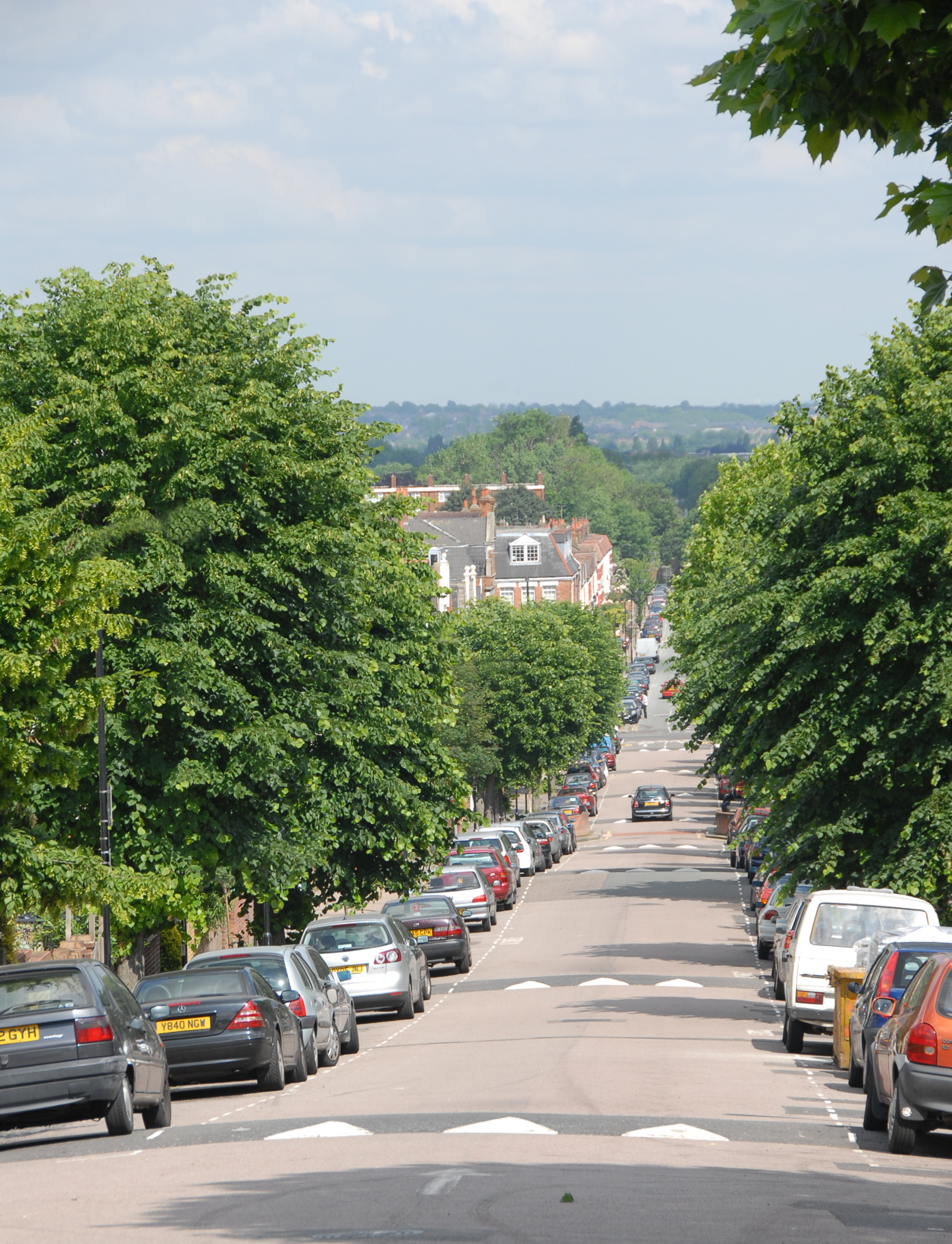 own work - a residential road in Haringey, North London